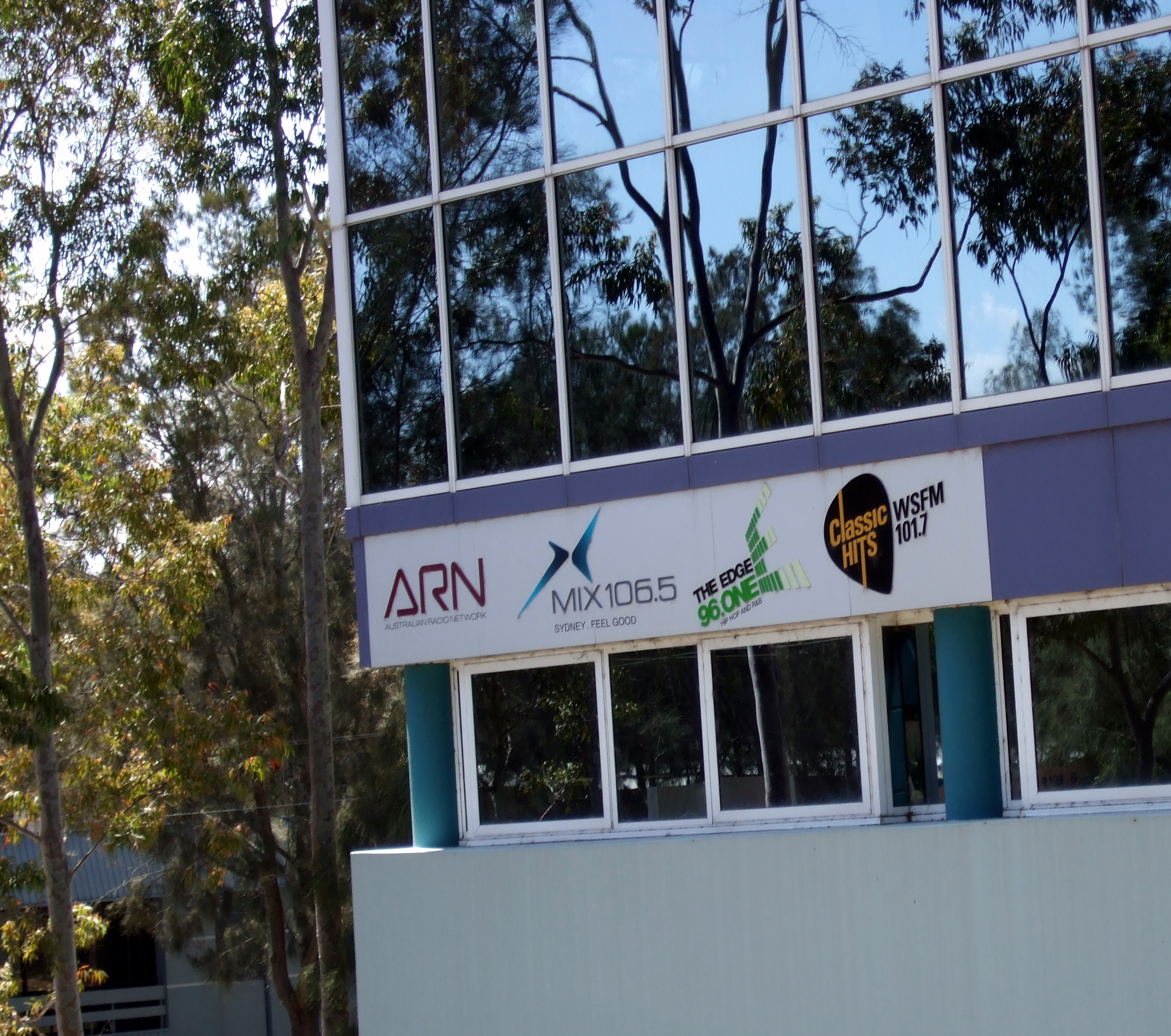 ARN, the Australian Radio Network, which has a subsidiary in New Zealand, I discover, called "TRN". I enquired, as one would, what the "T" stands for, and discovered that it stands for... "The". This is good. Mix106.5: Heart-type station, with a pedestrian breakfast show that was chock-full of ads (then 106 minutes ad-free into your workday). The Edge: didn't listen, but claims it's hip-hop and R&B Classic Hits 101.7: again, didn't listen to this. Did find an excellent classic rock station in Melbourne, but missed the name of the thing.